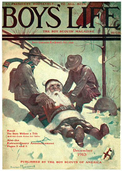 The cover of Boys' Life published December 1913. Read more